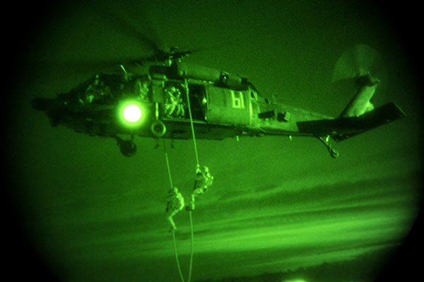 Delta Force inserted by a MH-60 Black Hawk helicopter in Abu Sayyaf, Syria, May 16th, 2015